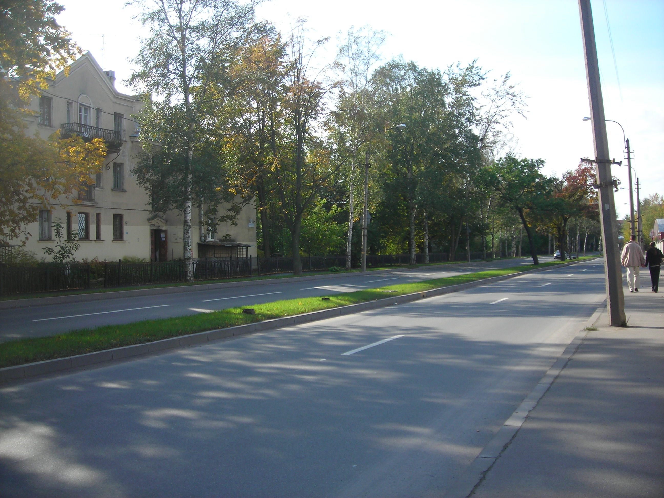 Shkolnaya street. 1950s